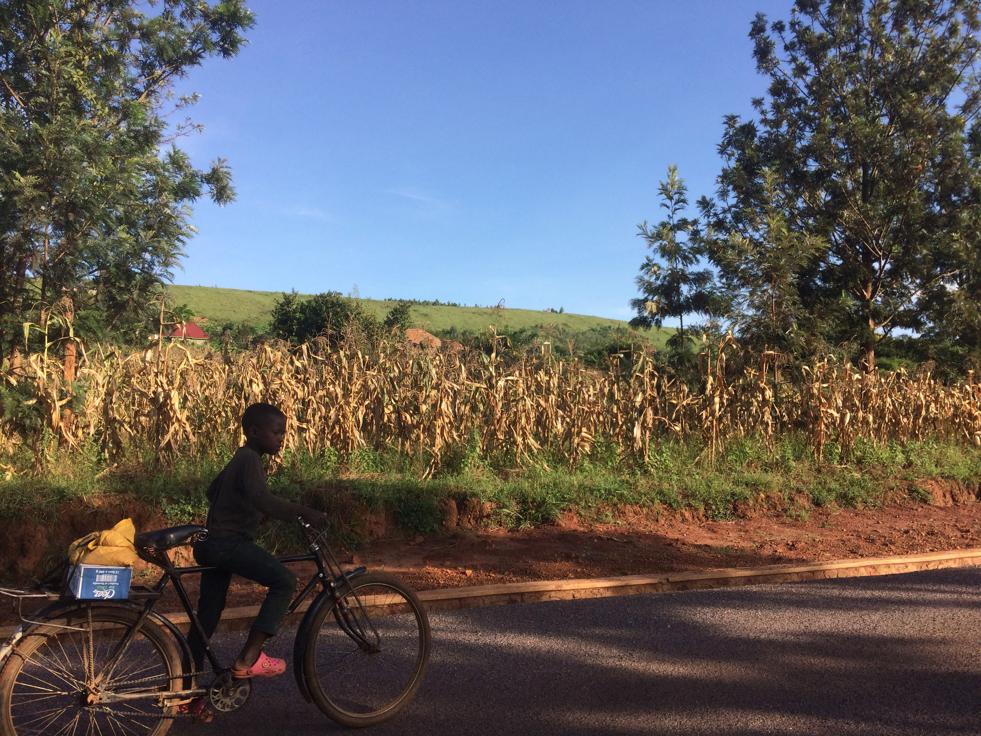 This is an image with the theme "Africa on the Move or Transport" from: Rwanda